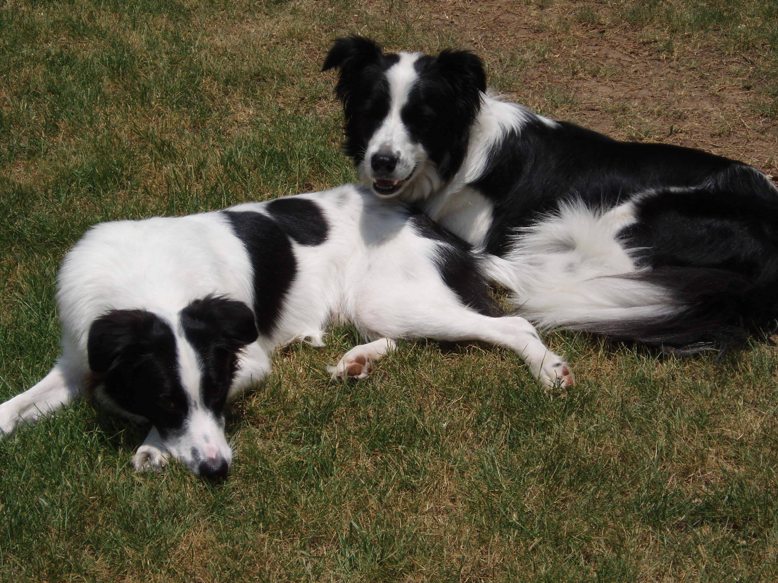 Two Border Collies.houndsOfLove